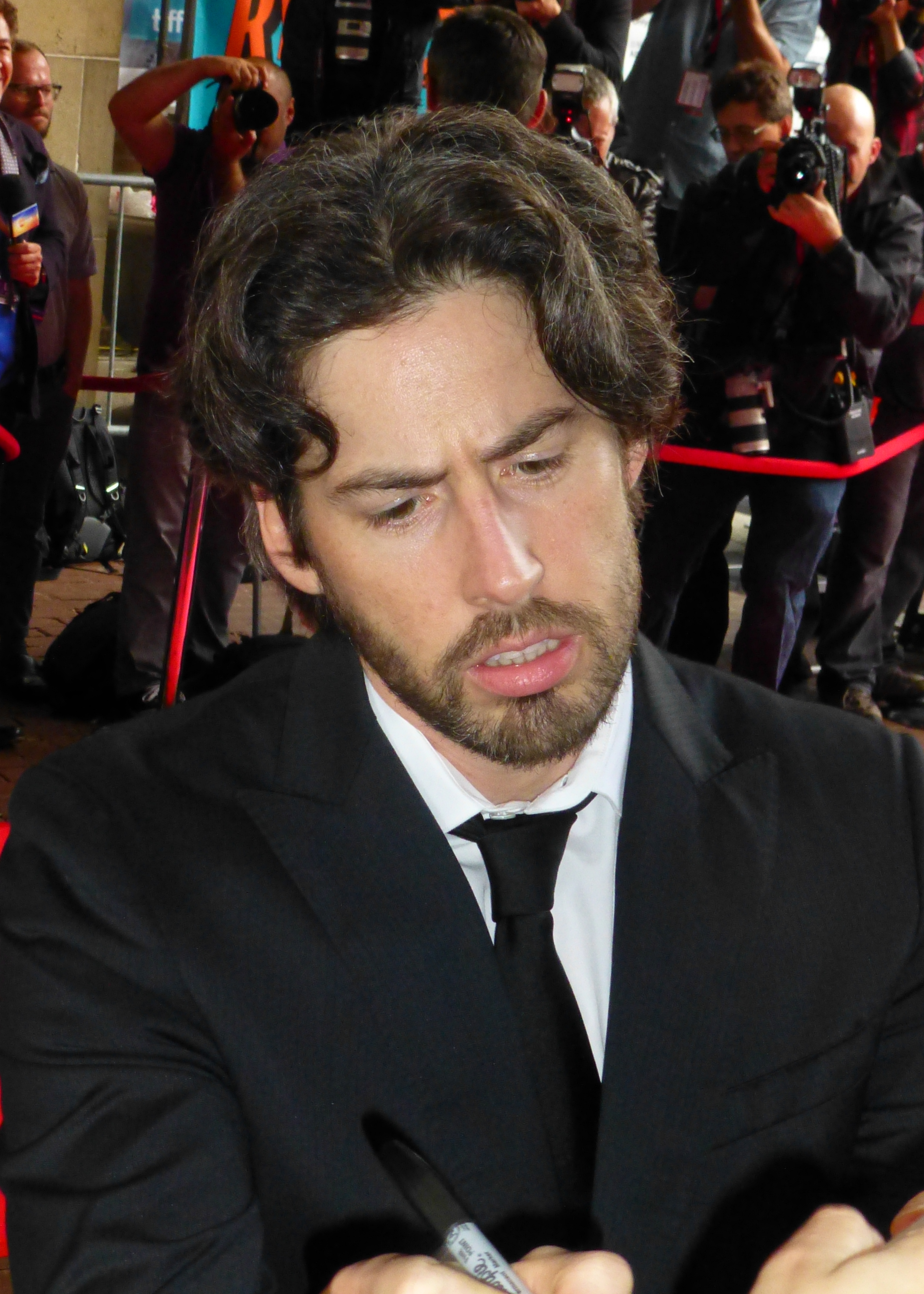 Jason Reitman at the premiere of Labor Day, Toronto Film Festival 2013